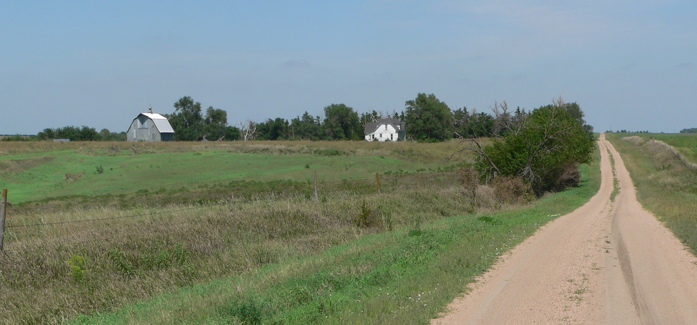 Pavelka farmstead, located southeast of Bladen, Nebraska. View is from the south, along county road 1100.